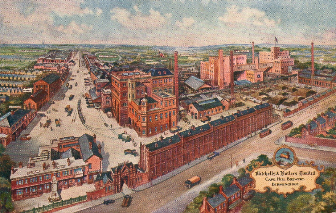 Mitchells & Butlers brewery, Cape Hill, Smethwick, England, from a postcard, circa 1925